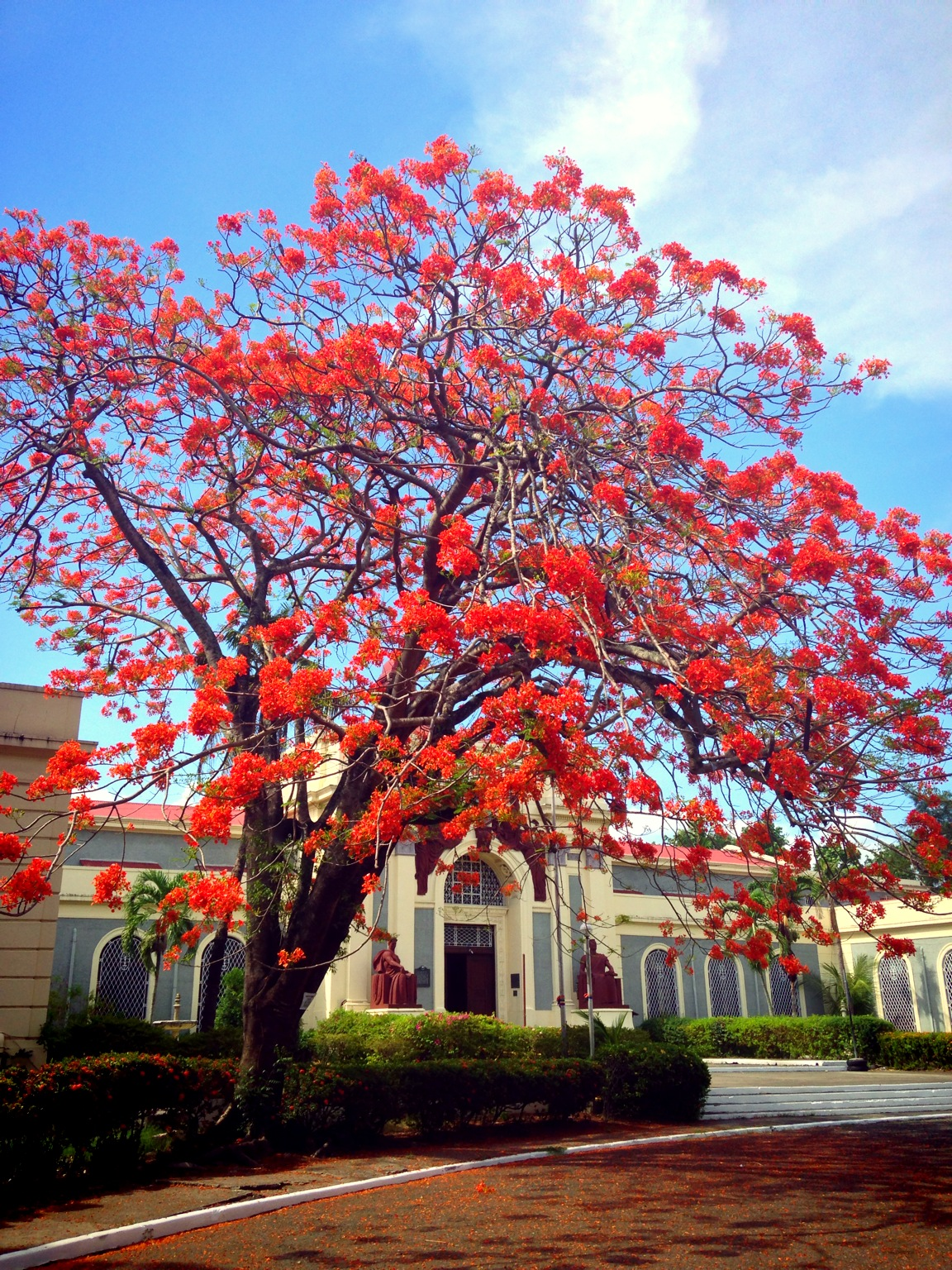 Old Iloilo City Hall, Iloilo